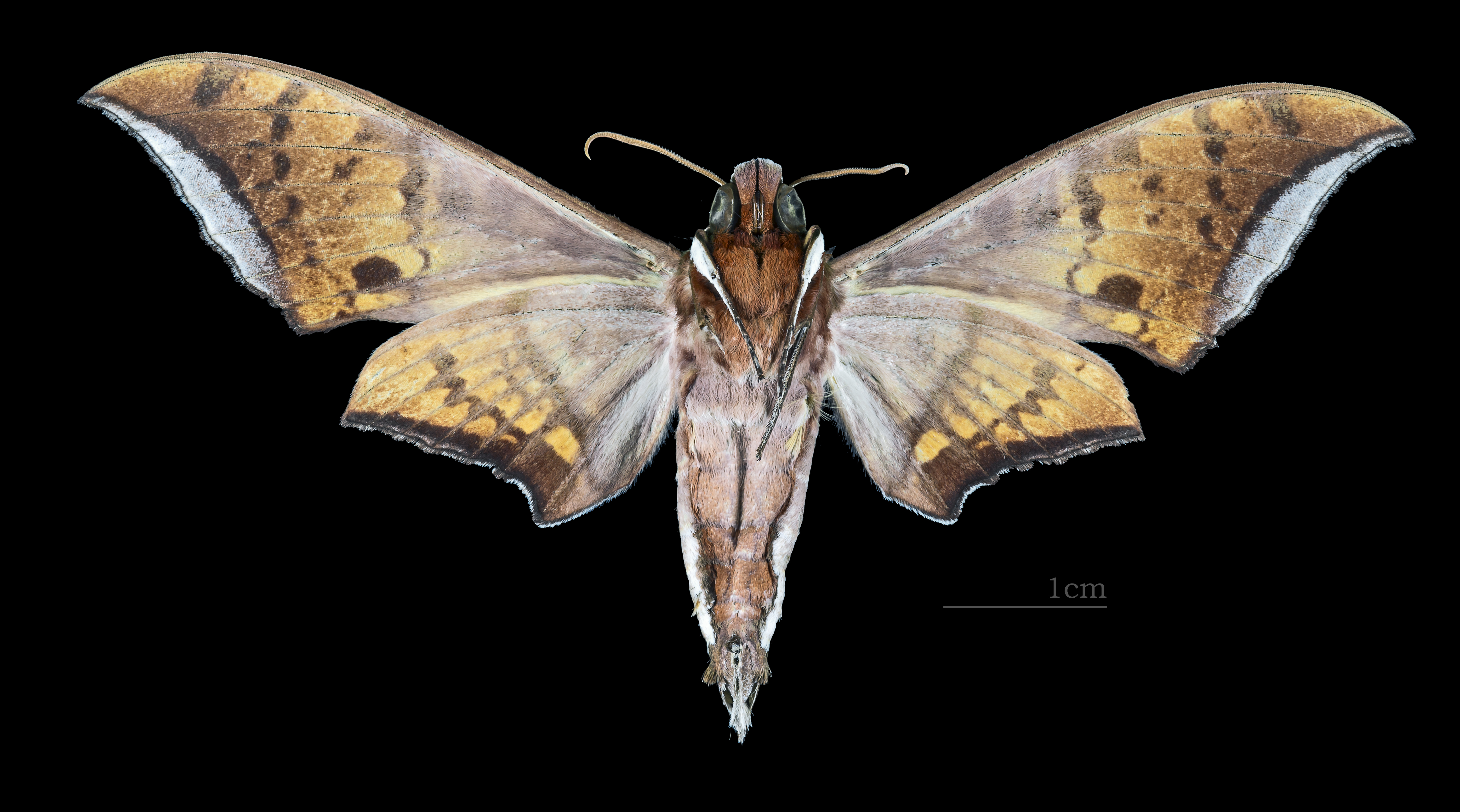 Ambulyx doherty - △ Ventral side Collection of the Mathematician Laurent Schwartz